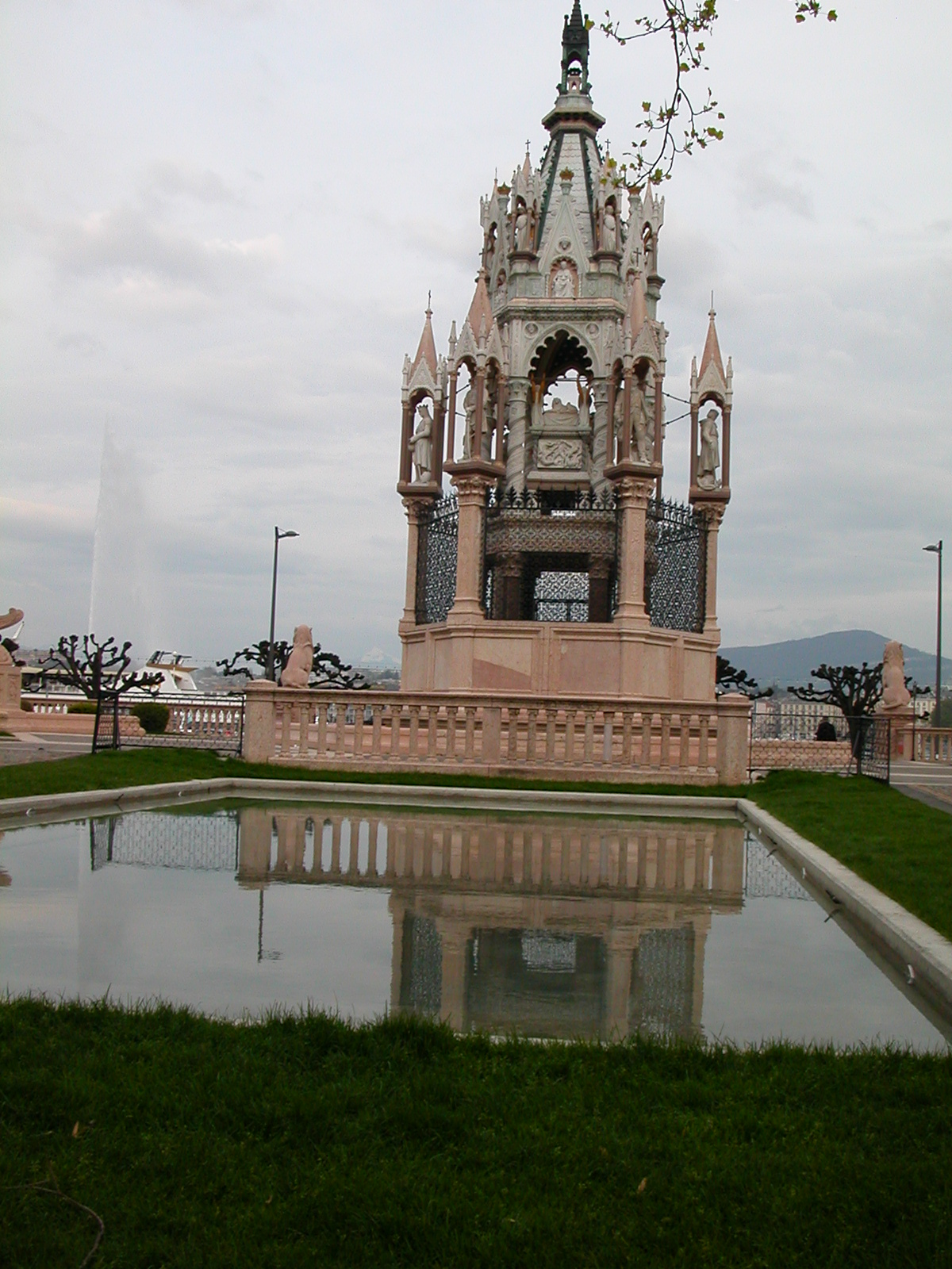 Monument of the city of Geneva to Charles II, Duke of Brunswick